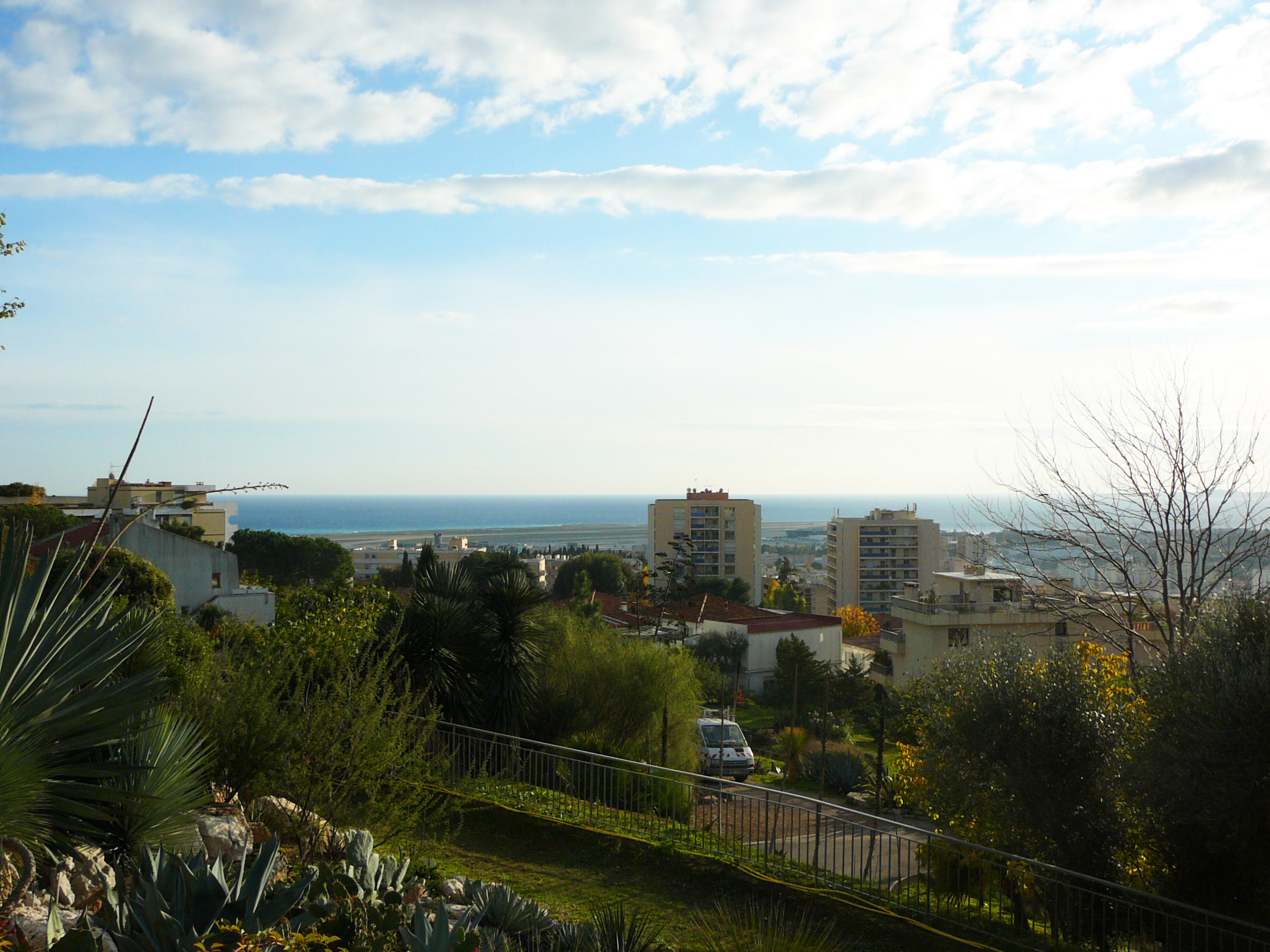 View of the airport from the Nice botanical garden.